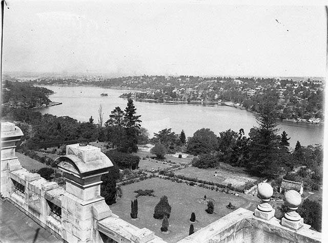 View from and campus of Saint Ignatius' College, Riverview circa 1930's.